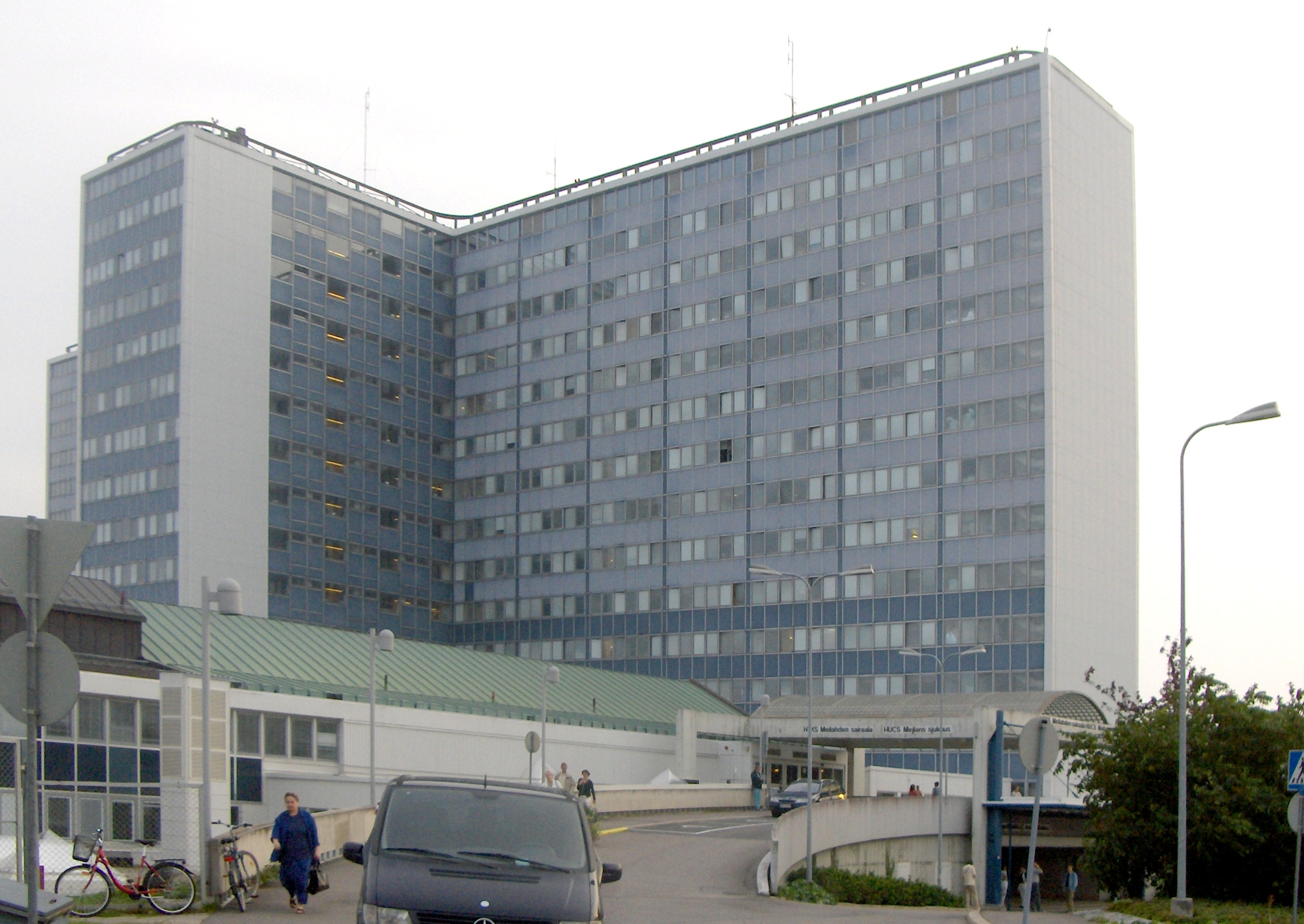 The Meilahti Hospital of Helsinki University Central Hospital.